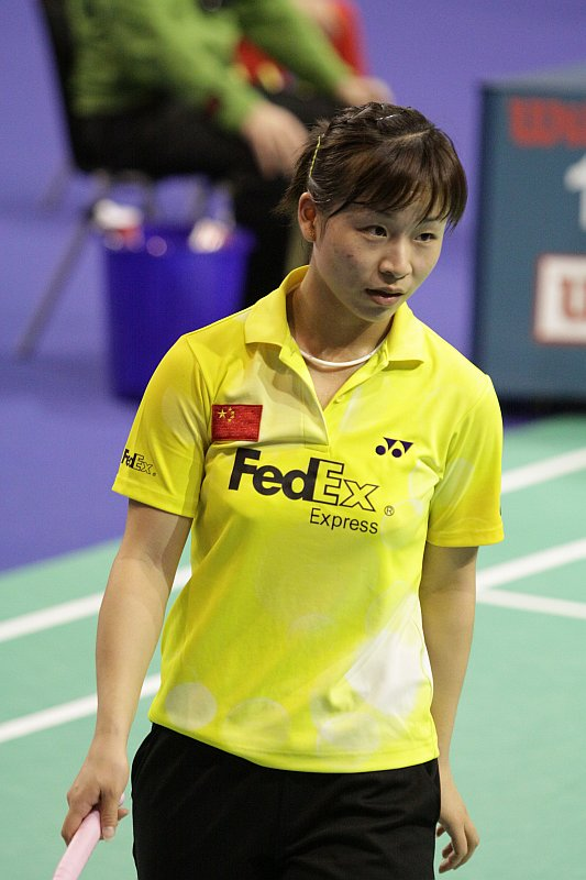 Ma Jin